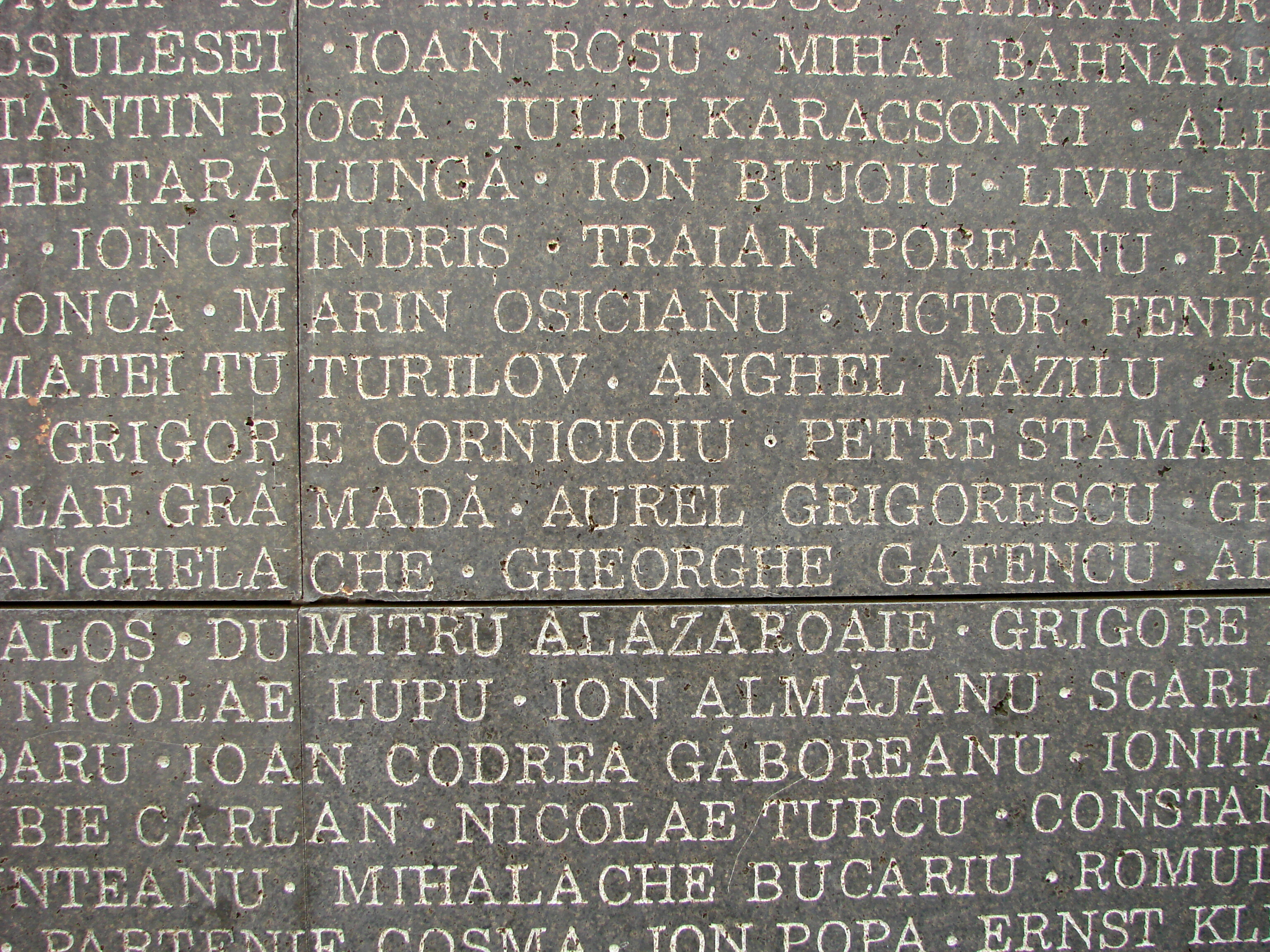 Detail of memorial wall, Museum of Arrested Thought, Sighet, Romania. June 2007.